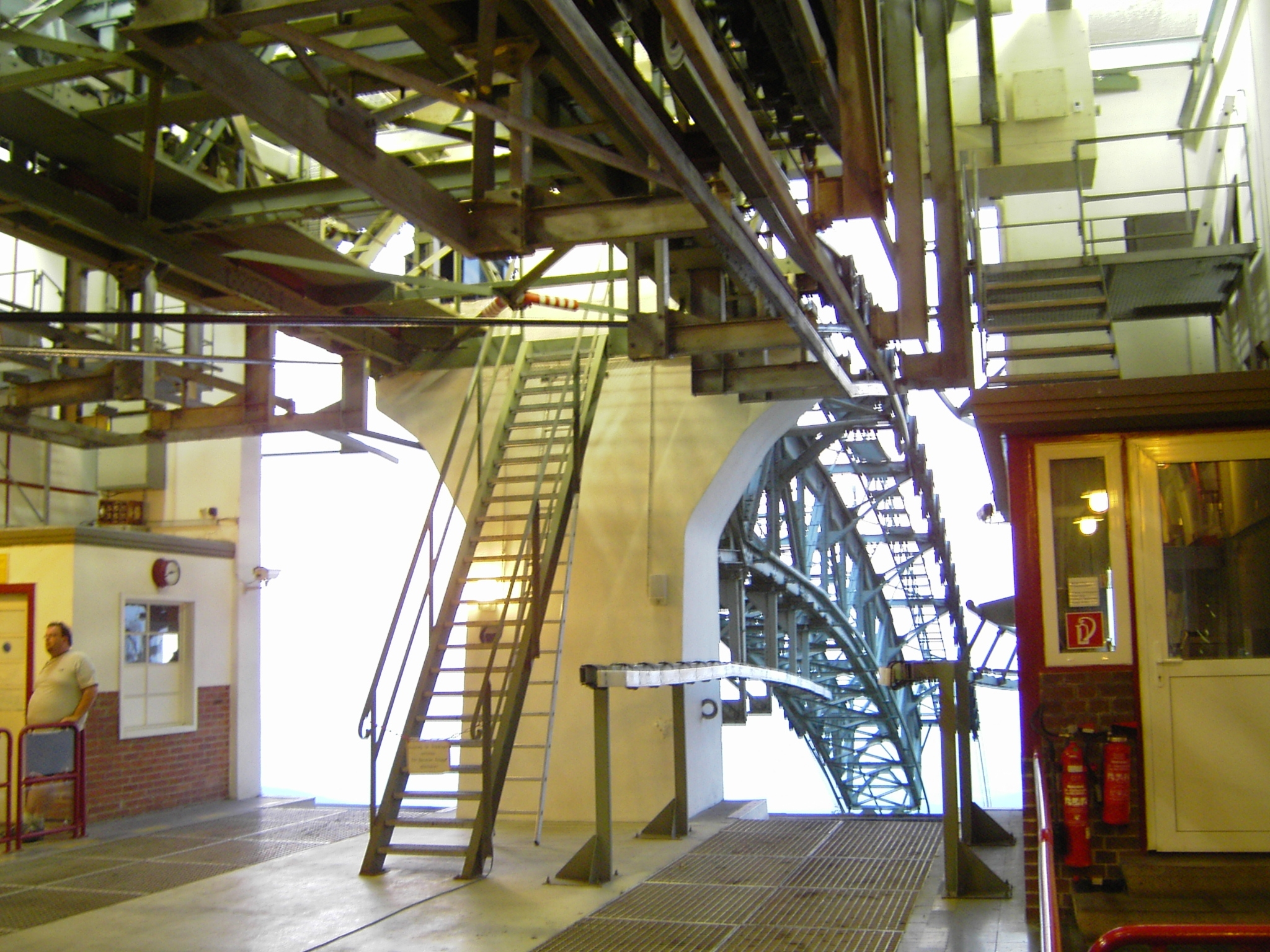 The Aerial tramway Schauinslandbahn at the mountain